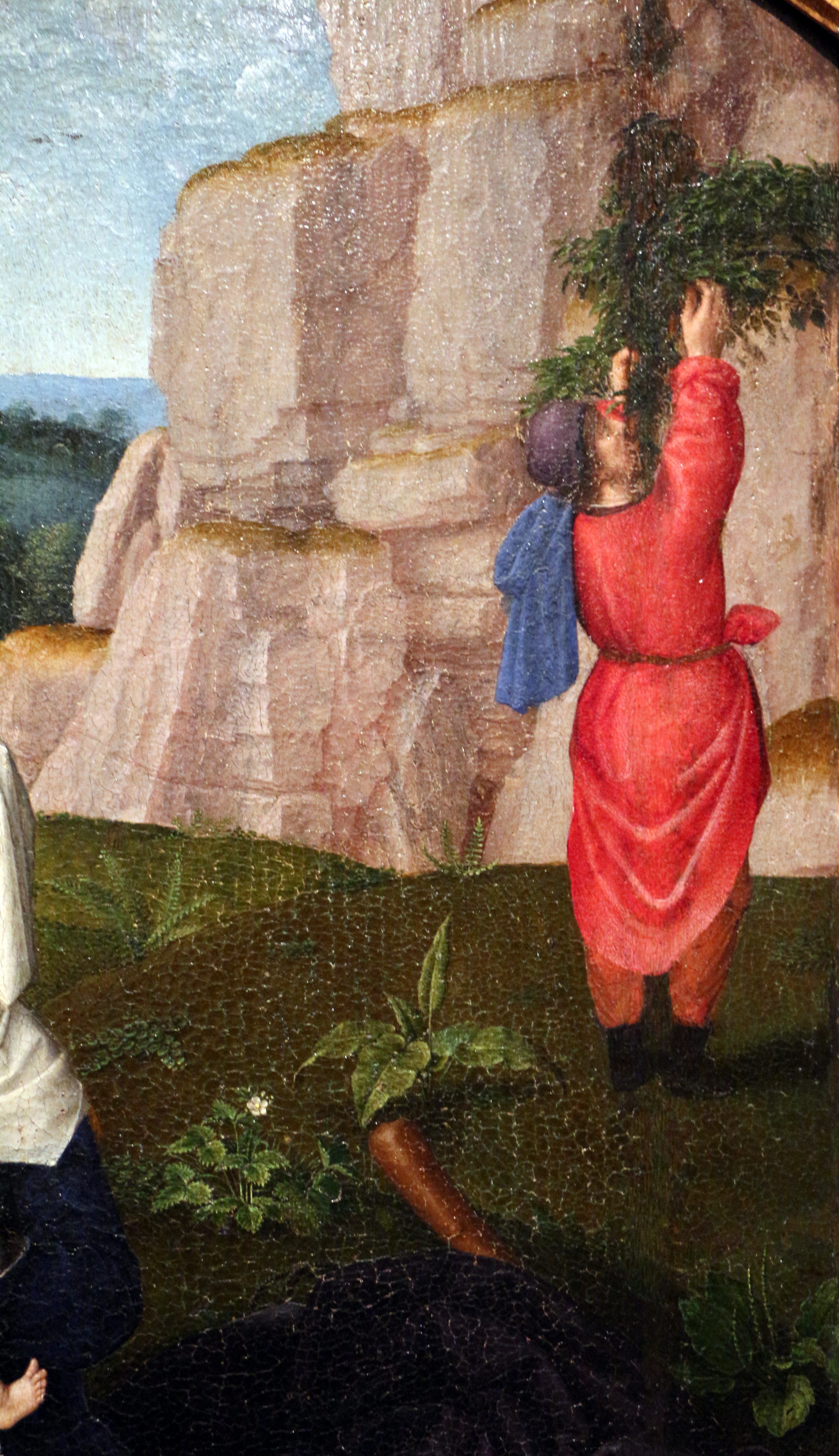 Flemish paintings in the Museu Nacional de Arte Antiga